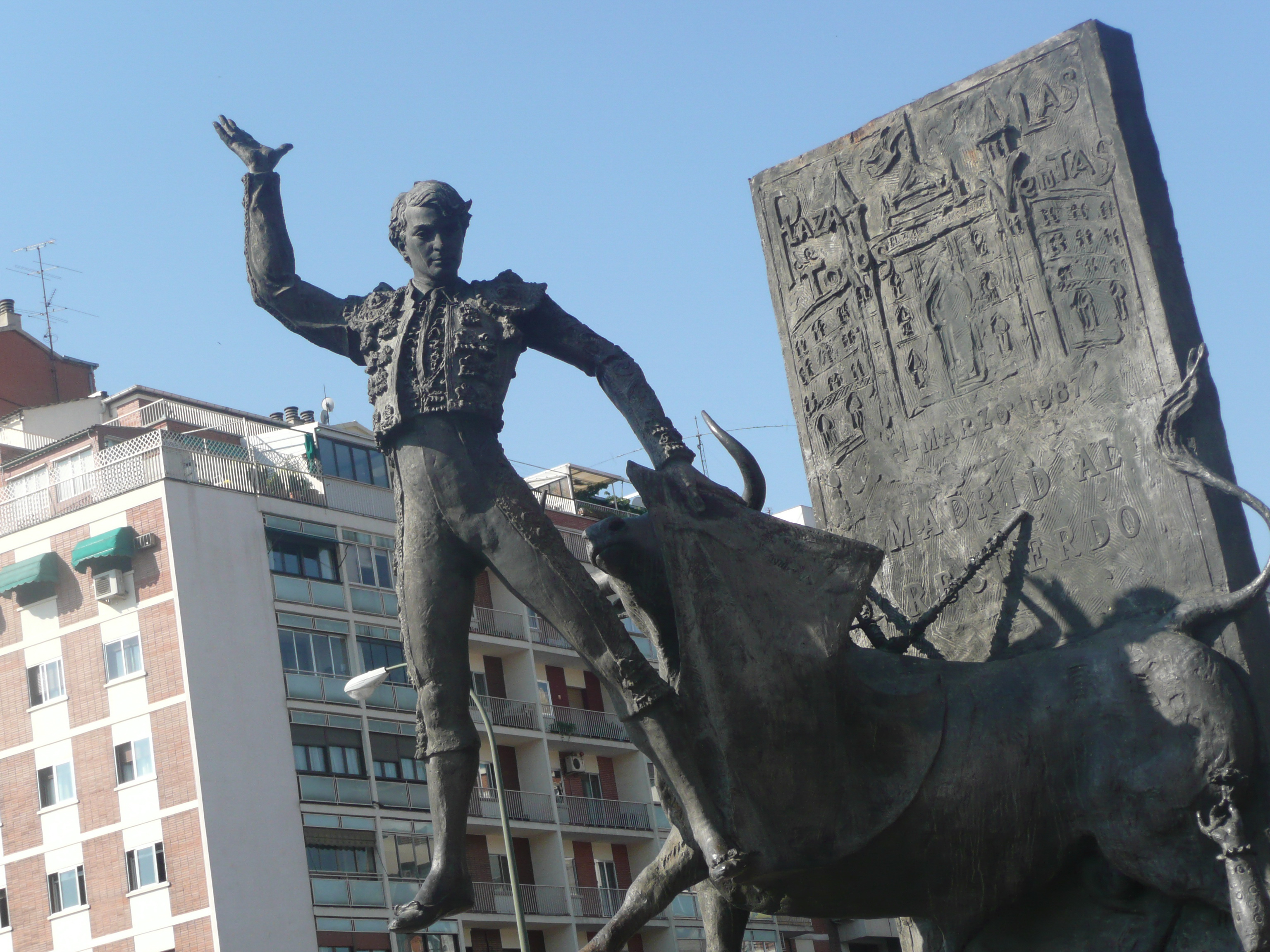 José Cubero Sánchez monument (Madrid)